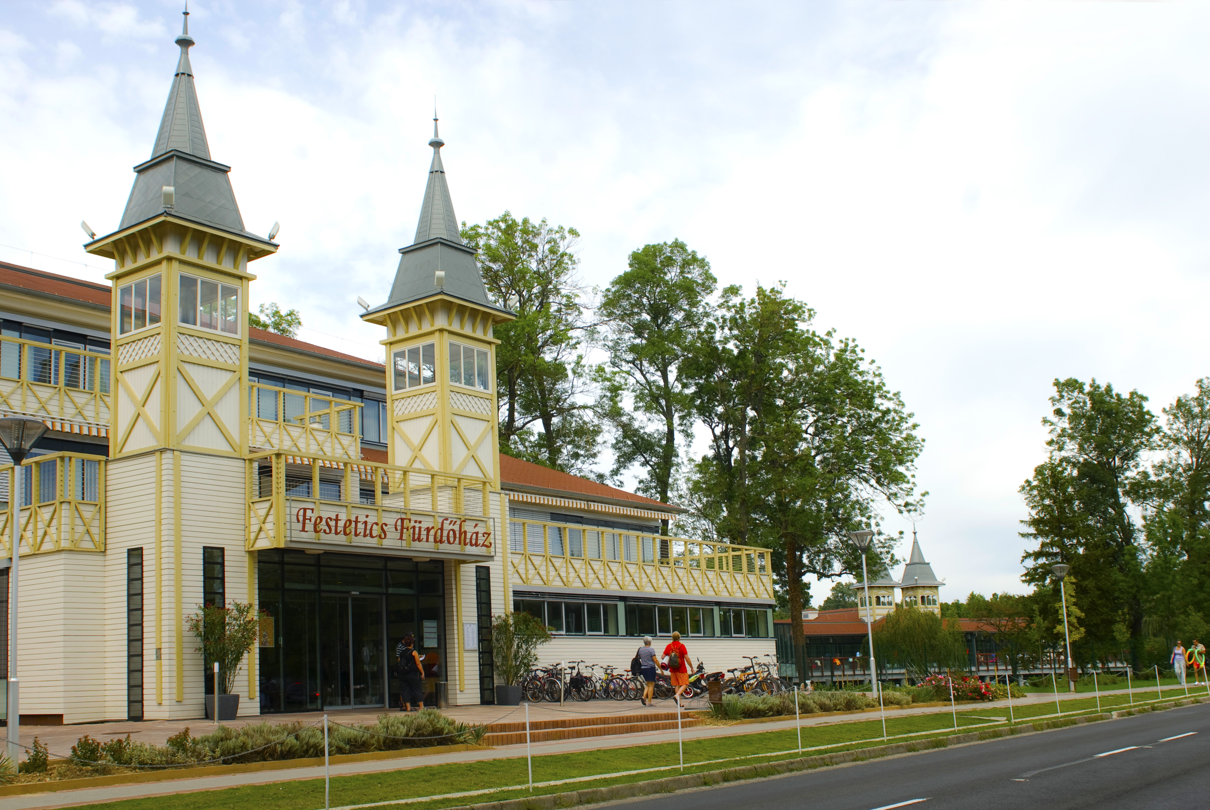 Lake Bath in Hévíz Hungary